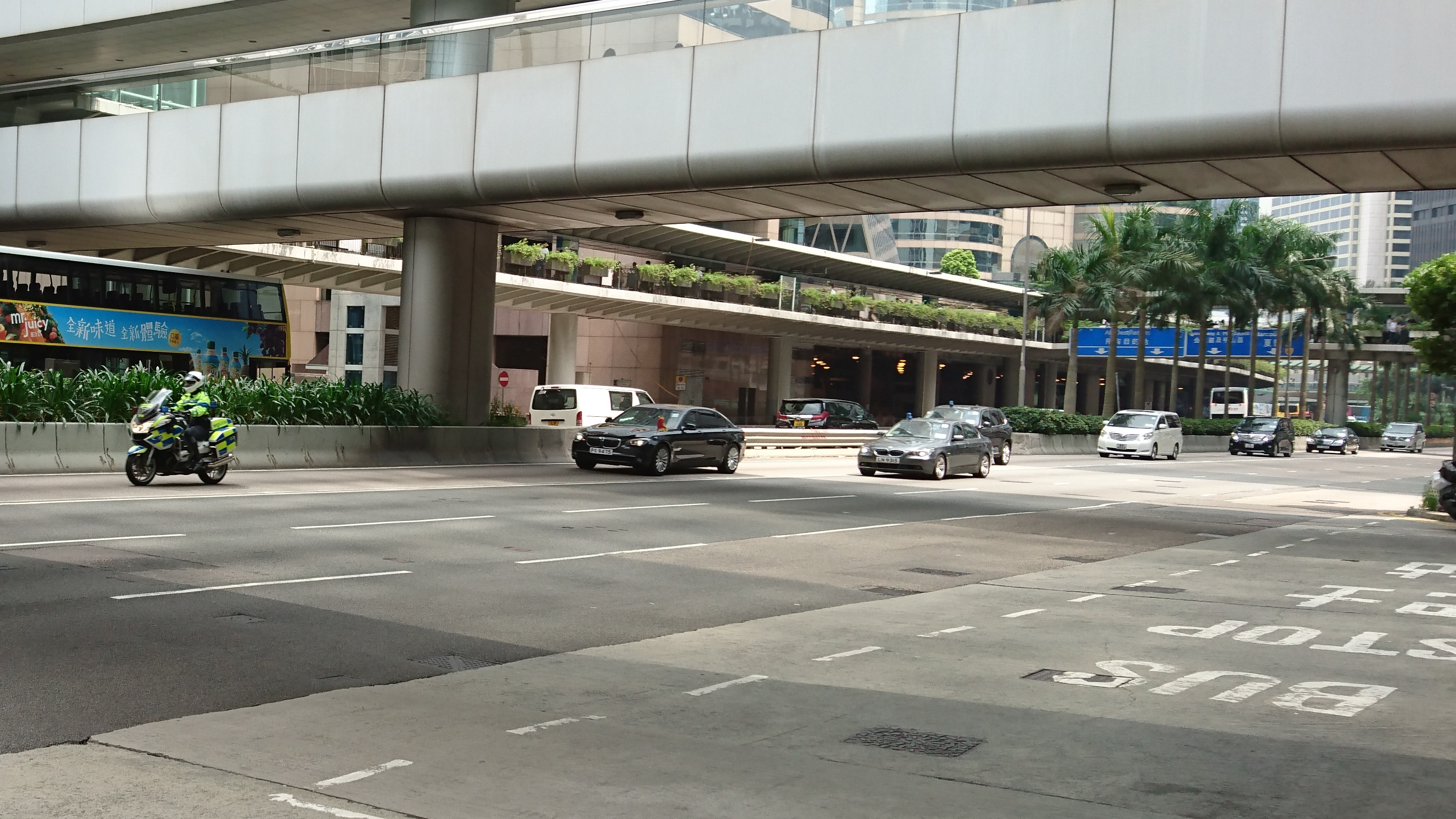 Nguyễn Xuân Phúc Hong Kong Visit Car Fleet on Connaught Road Central on 2016-9-15